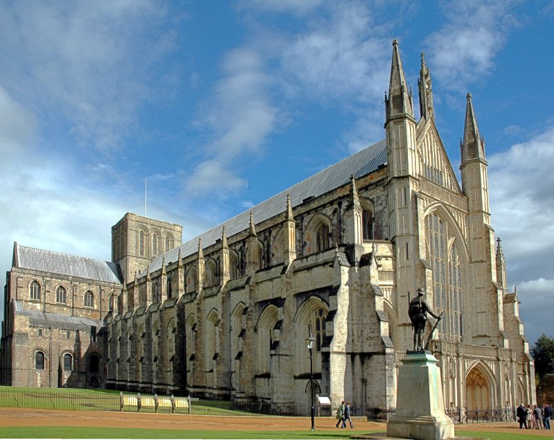 Winchester Cathedral from the side